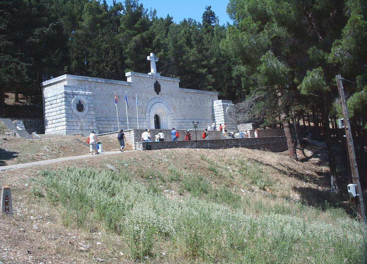 Serbian WWI soldiers mausoleum on Vido island.